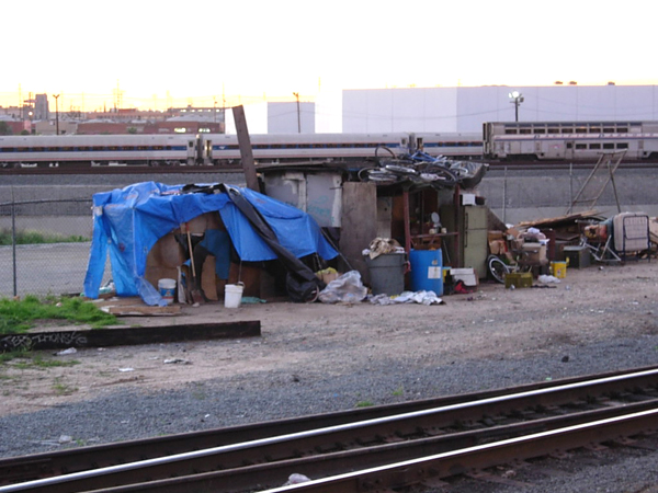 Homeless people living in cardboard boxes in Los Angeles, California.